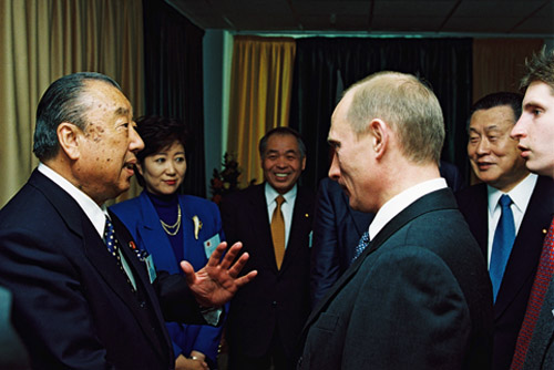 IRKUTSK. President Putin with members of the Japanese Diet (Parliament).